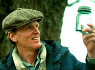 Tom Davenport, filmmaker working on "Soldier Jack or the Man Who Caught Death in a Sack"